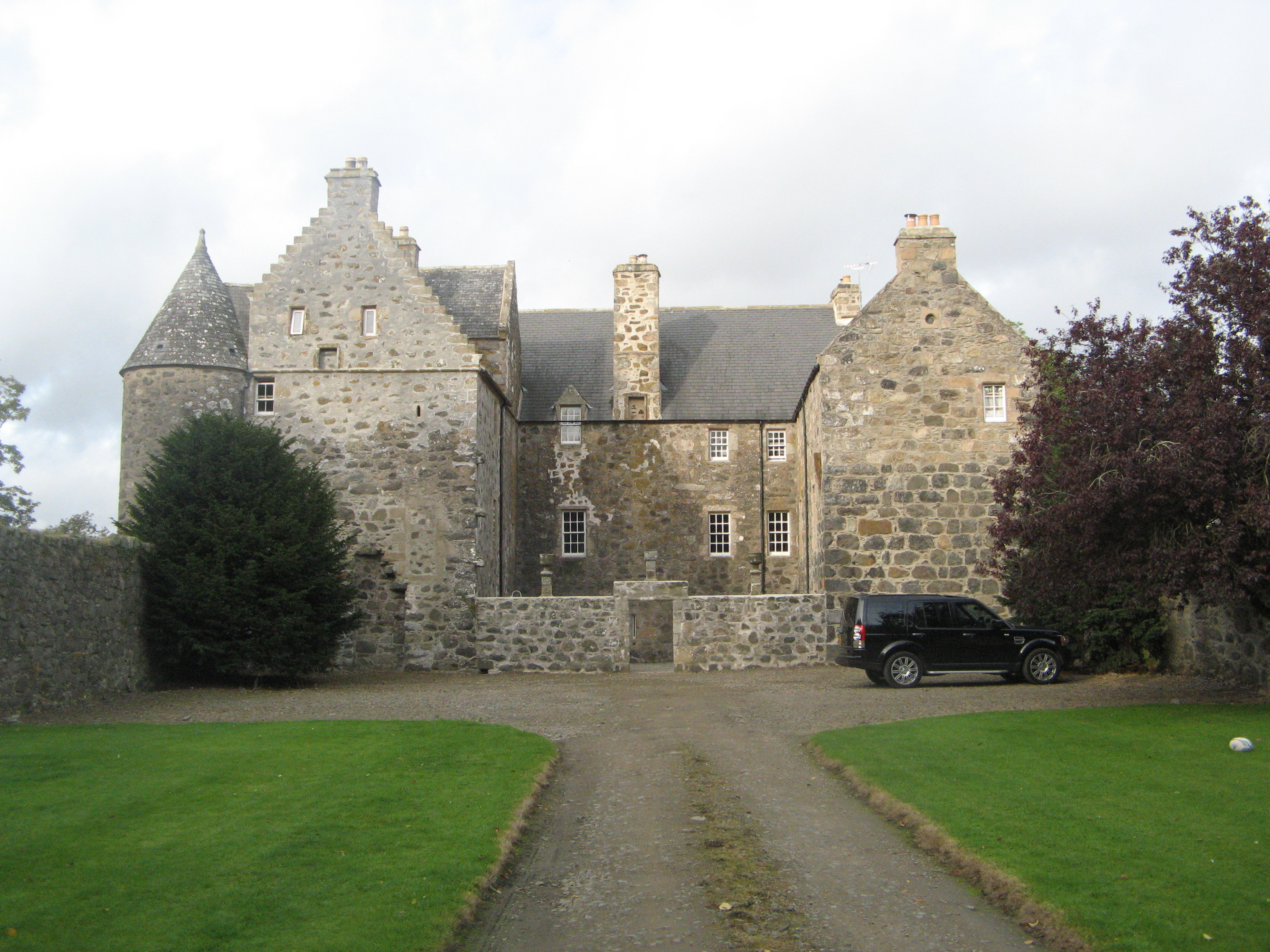 Barra Castle, front view